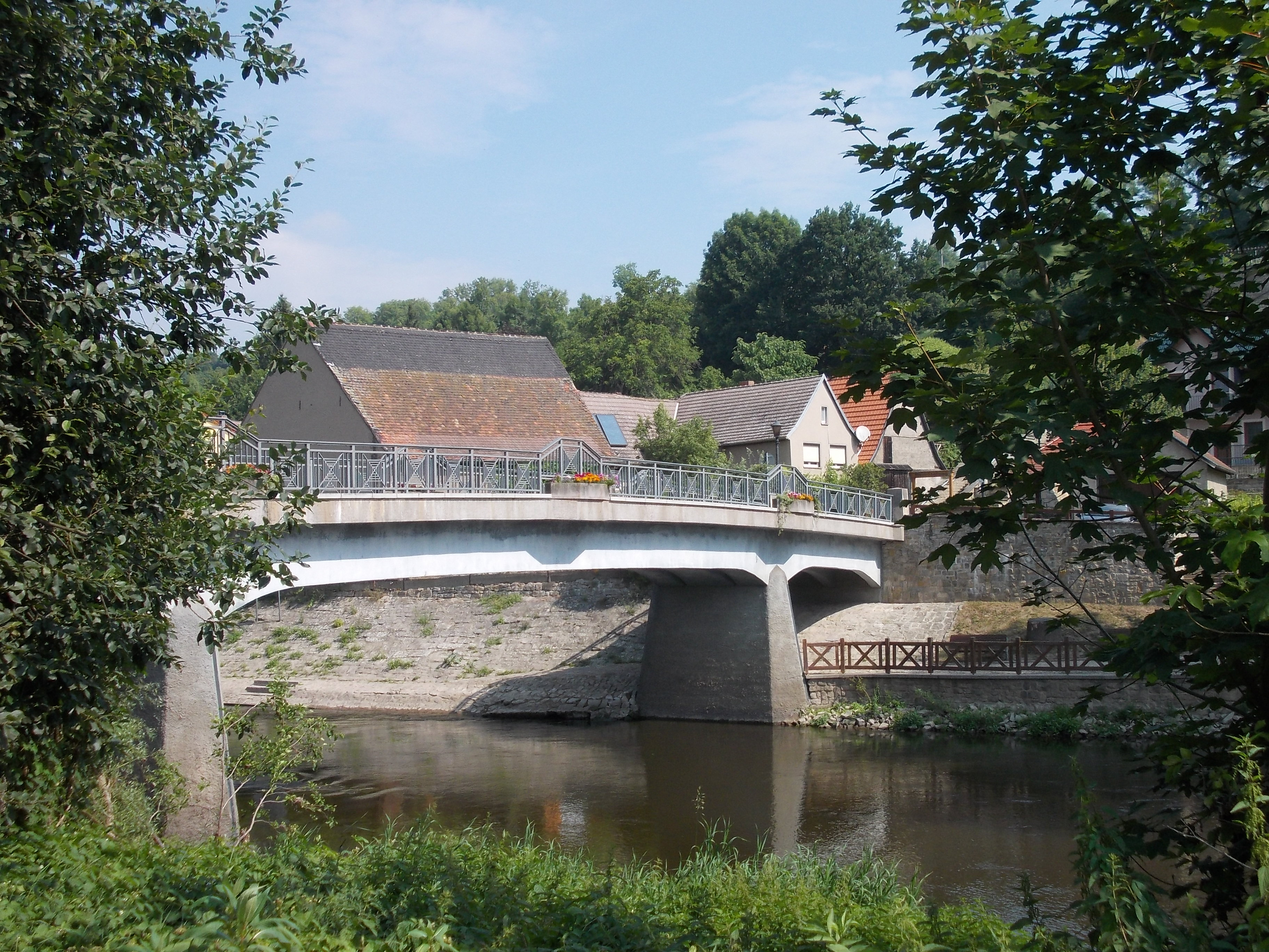 Bridge over the Saale in Kaatschen (Grossheringen, district of Weimarer Land, Thuringia)